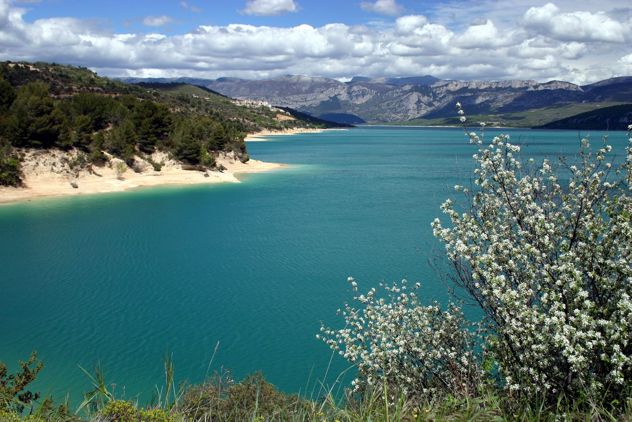 Lac de Sainte-Croix ("Lake of Sainte-Croix") is a man-made lake that was formed as a result of a dam (Barrage de Sainte-Croix). South east France.